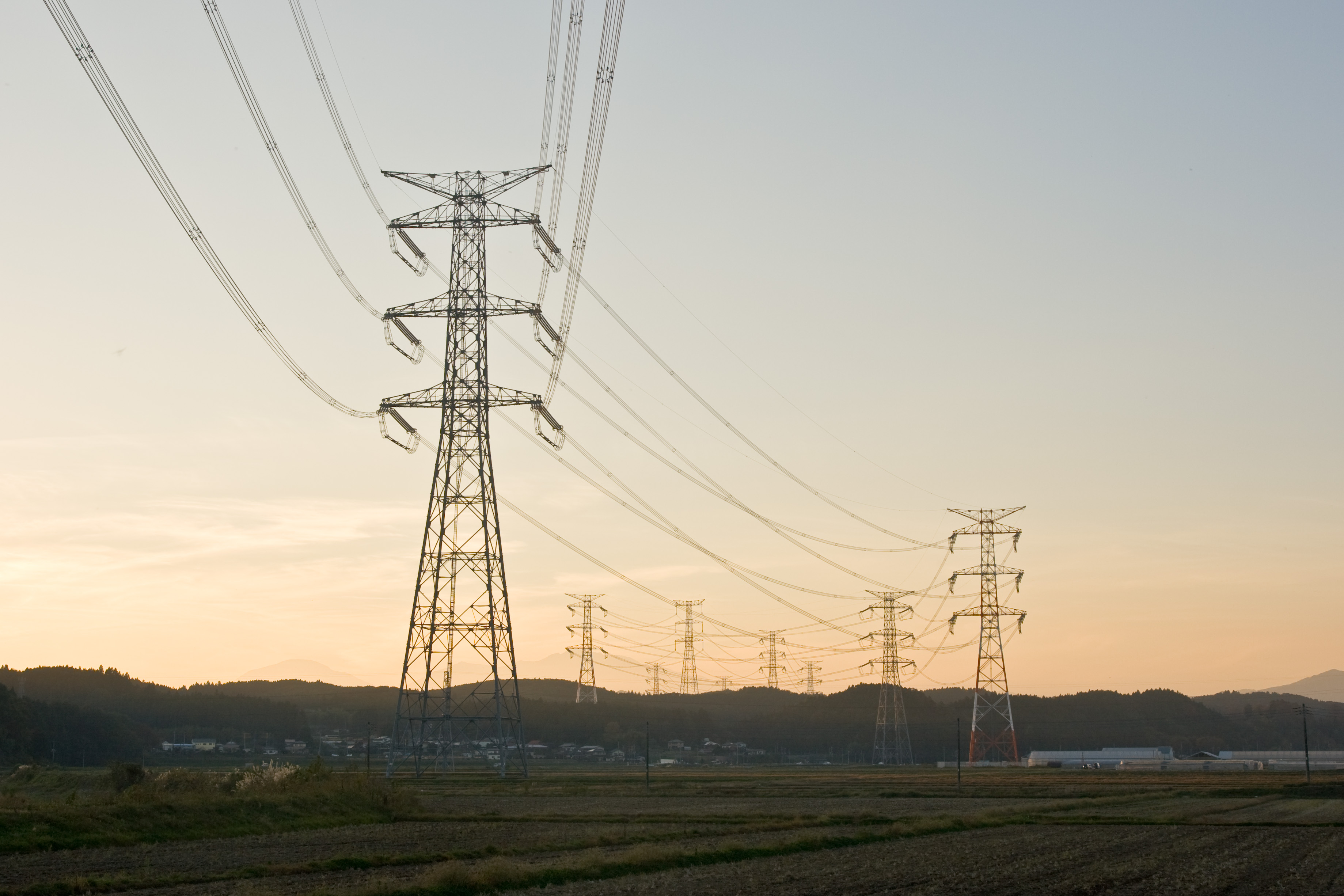 Minami-Iwaki Trunk Line (500 kV power transmission line, designed for 1 MV), Yaita City, Tochigi Pref., Japan